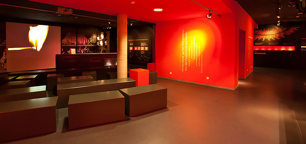 Laboratory in Phantechnikum